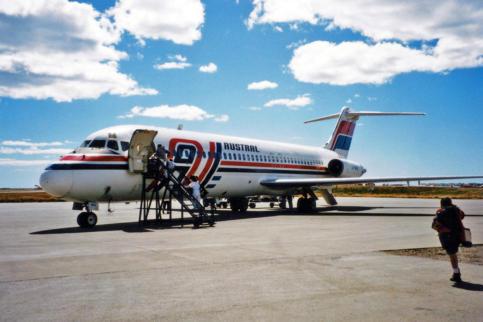 Rio Grande - International (RGA / SAWE) Argentina 3.1995 w/o when it crashed in a swampland on the banks of the Uruguay River near Nuevo Berlin, Uruguay 10 Oktober 1997